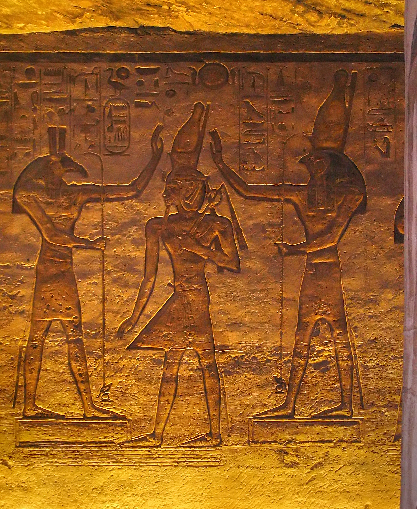 The gods Seth (left) and Horus (right) adoring Ramesses II in the small temple at Abu Simbel, in far southern Egypt.